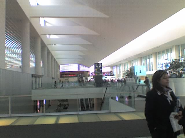 Terminal 2 of MEX